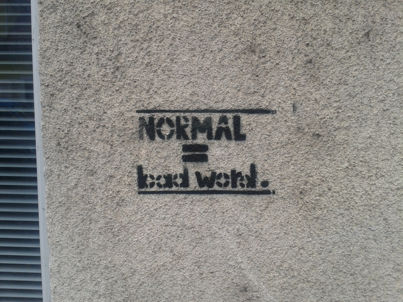 A graffito in Ljubljana (Moste), Zalog Street.